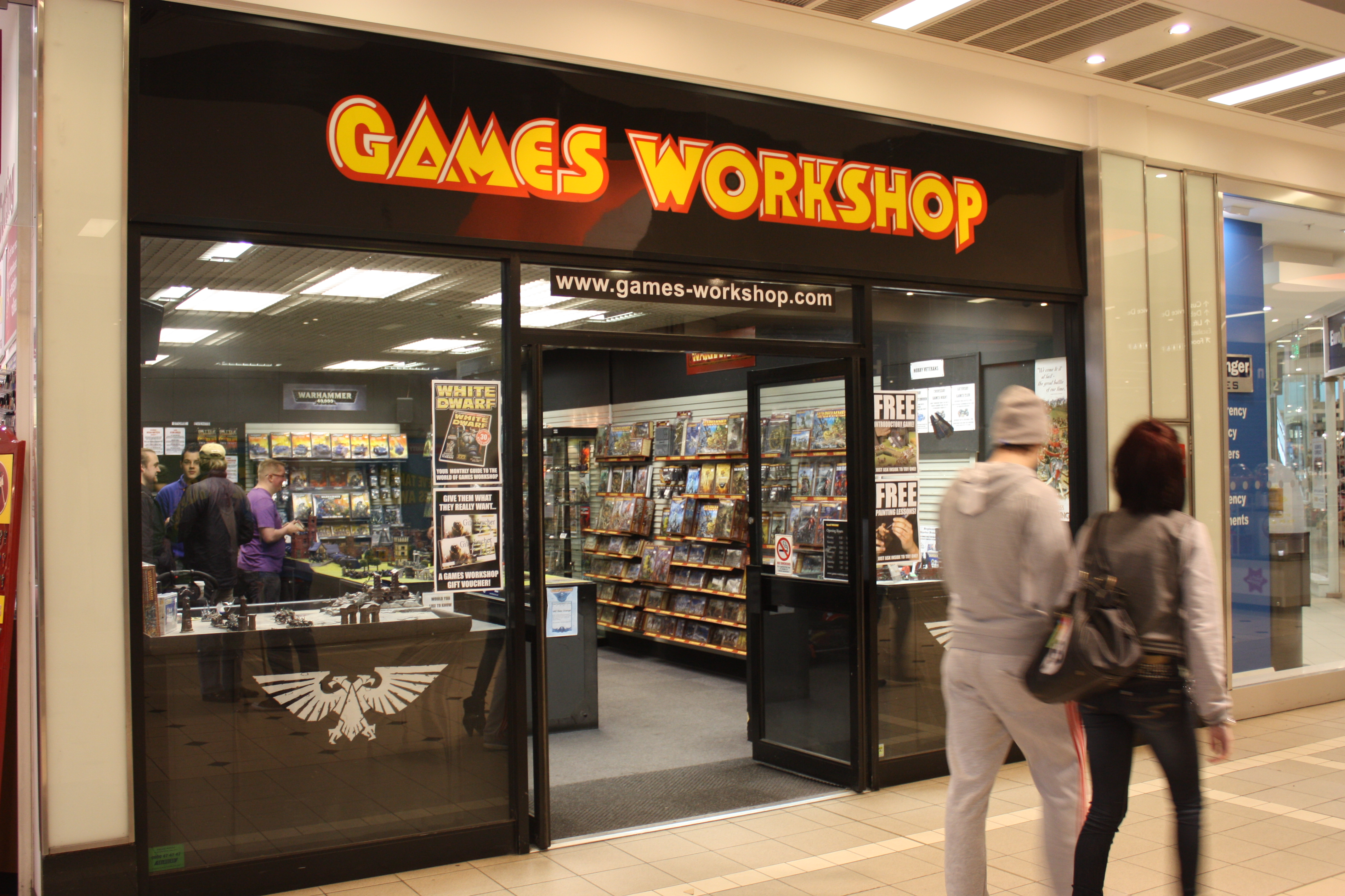 Games Workshop, Castle Court shopping centre, Royal Avenue, Belfast, Northern Ireland, January 2011